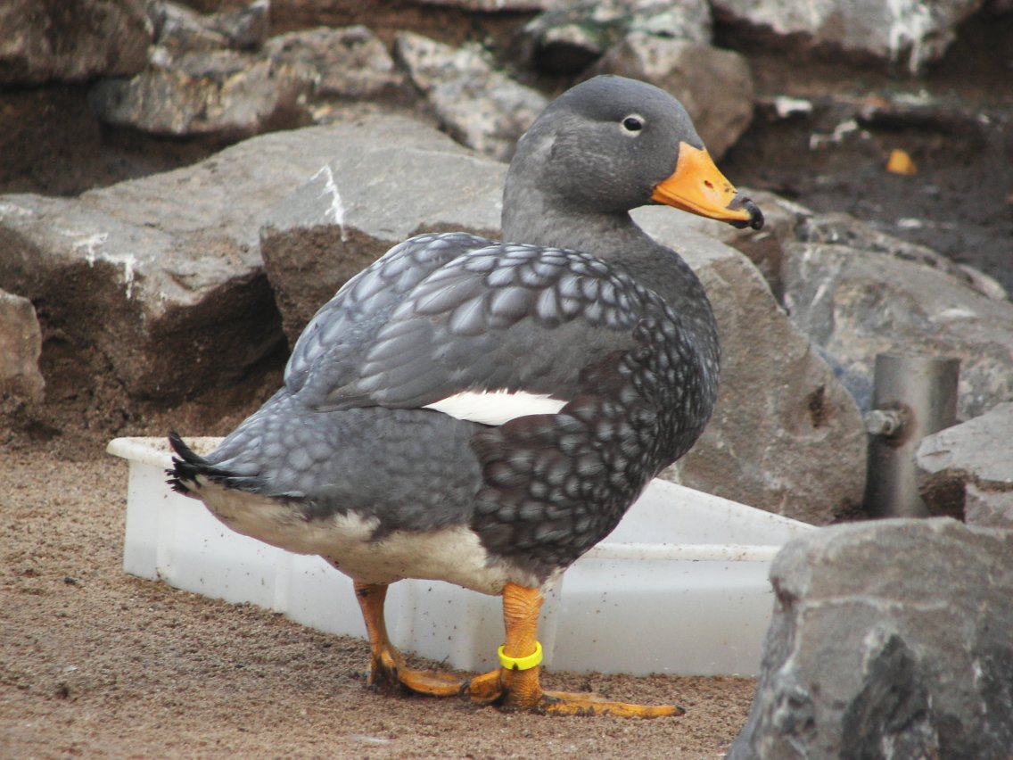 Tachyeres pteneres in Cologne Zoo, Germany.